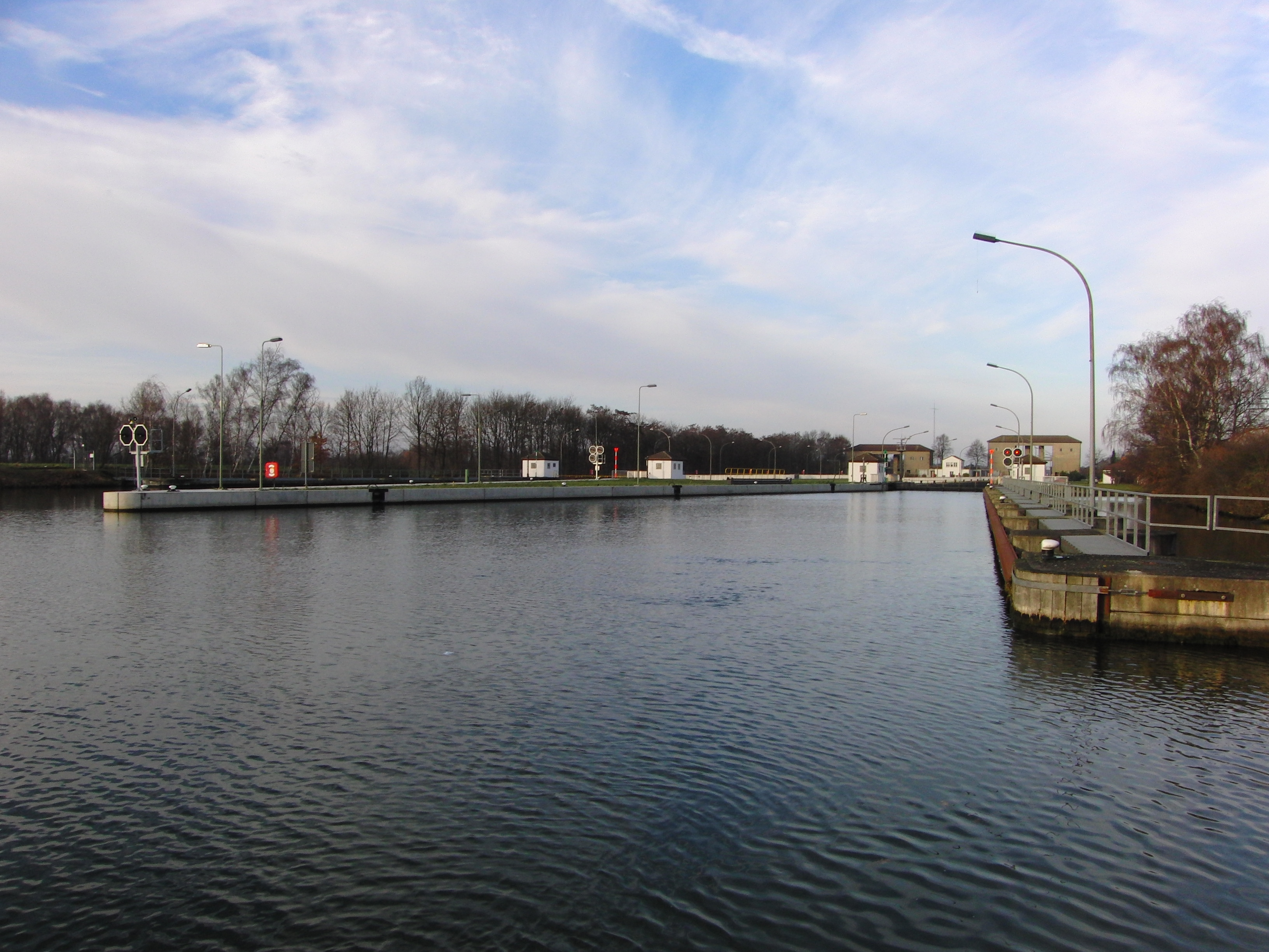 Canal lock Wedtlenstedt in Stichkanal Salzgitter, view from South